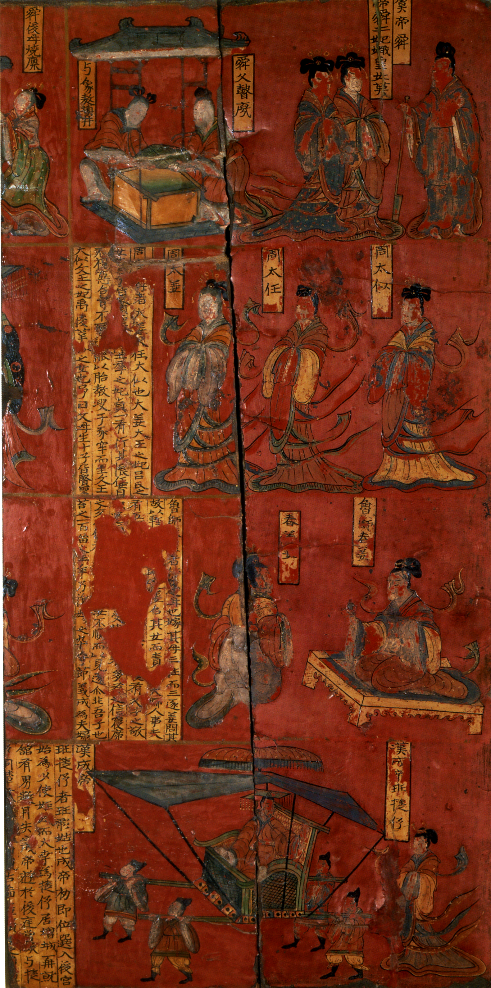 Filial sons and virtuous women in Chinese history, a lacquer painting over a four-panel wooden folding screen measuring 81.5 cm in height; from the tomb of Sima Jinlong in Datong, Shanxi province, dated to the Northern Wei Dynasty (386–534 AD).